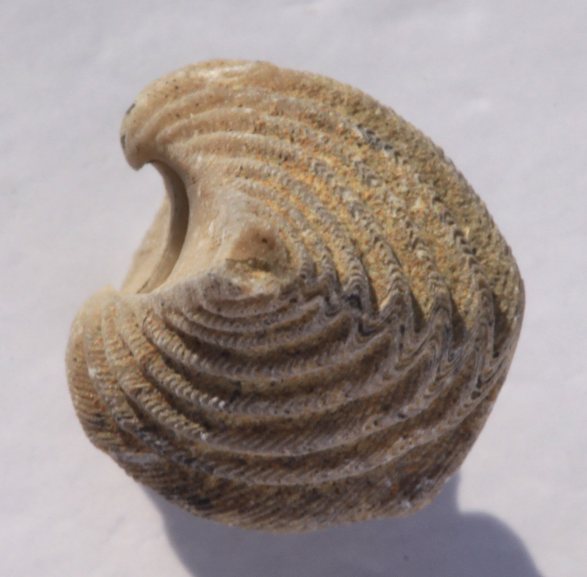 A Punctospirifer kentuckyensis lampshell, Order Spiriferinida, Family Punctospiriferidae, 19mm along the axis, lateral view, collected at the Harpersville Formation near Breckenridge, Texas, USA, from the Carboniferous (Pennsylvanian)